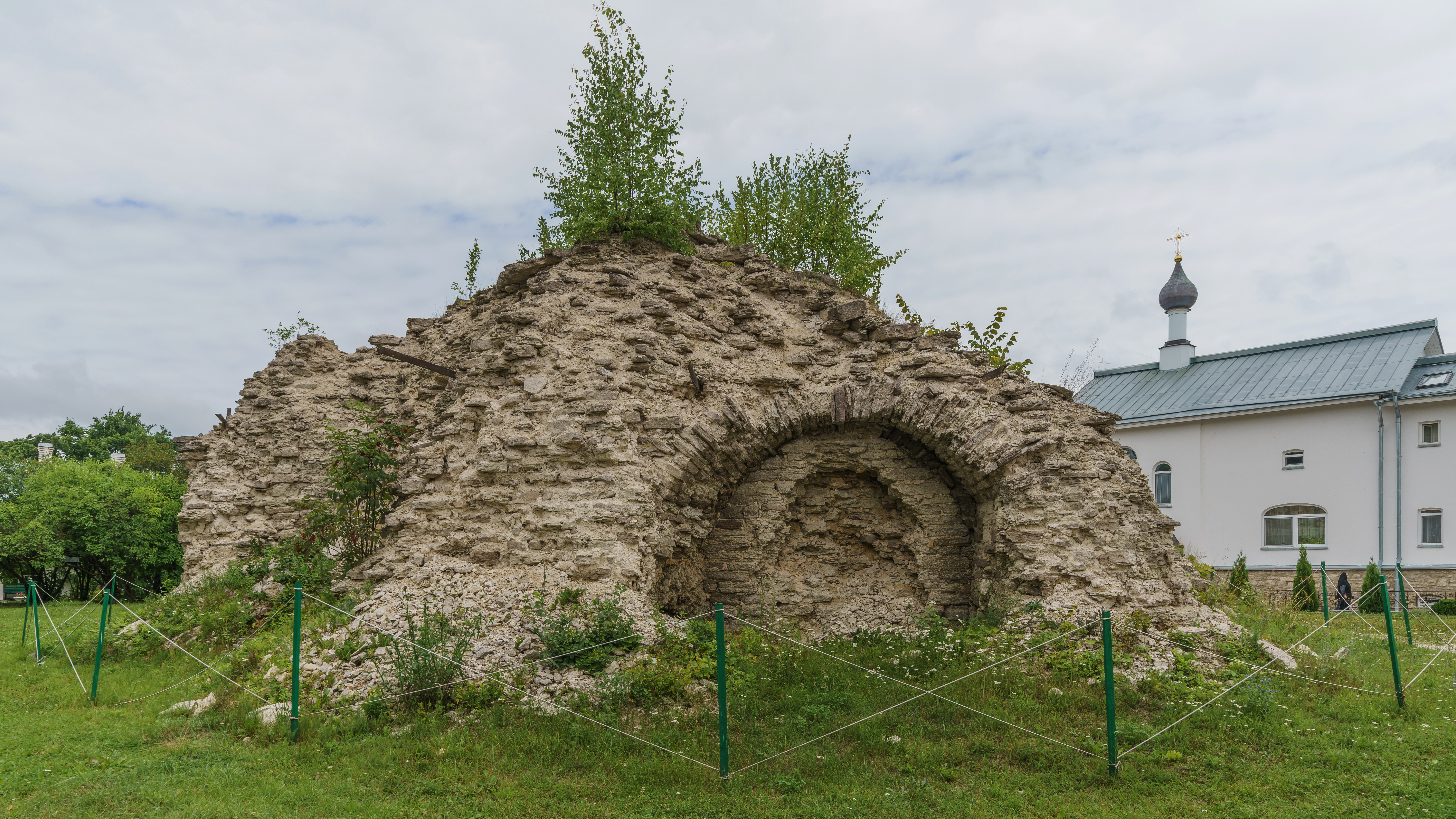 Remains of the Ascension Church in Snetogorsky Monastery in Pskov, Russia